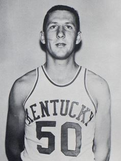 University of Kentucky basketball player Adrian Smith from the 1958 "Kentuckian" yearbook